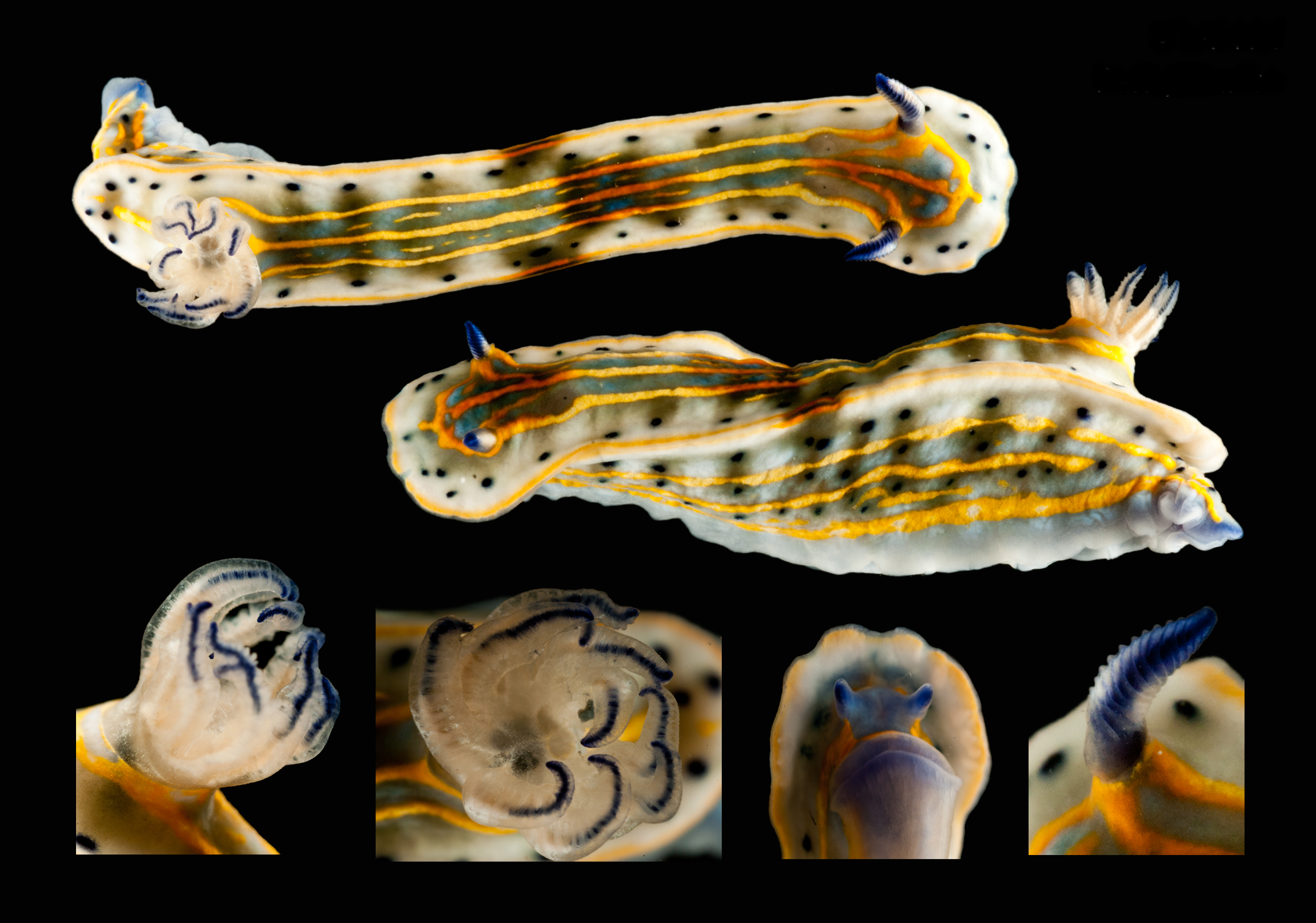 Holotype of Hypselodoris fregona, Pointe sur baie de Baille Argent, 16º15’N 61º48’W), GD20, May 12, 2012.